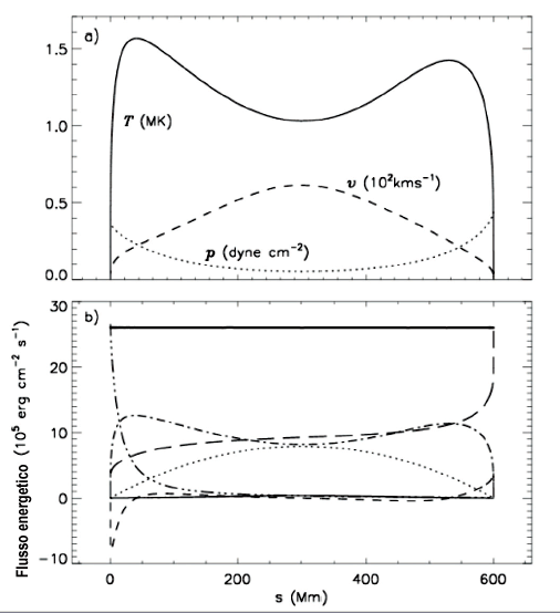 Italian translation of Image:Energyfig.png